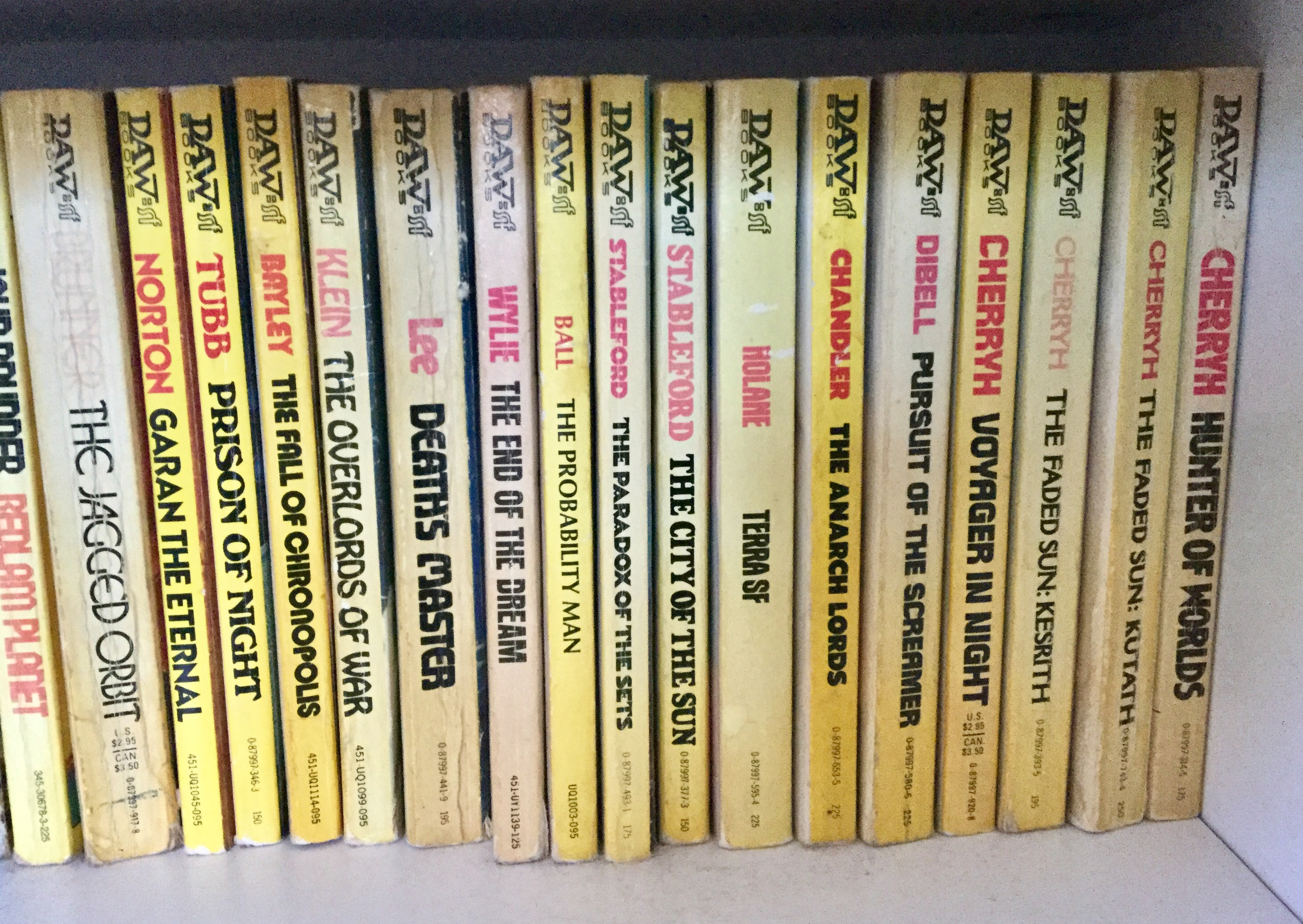 A number of paperback books published by DAW SF